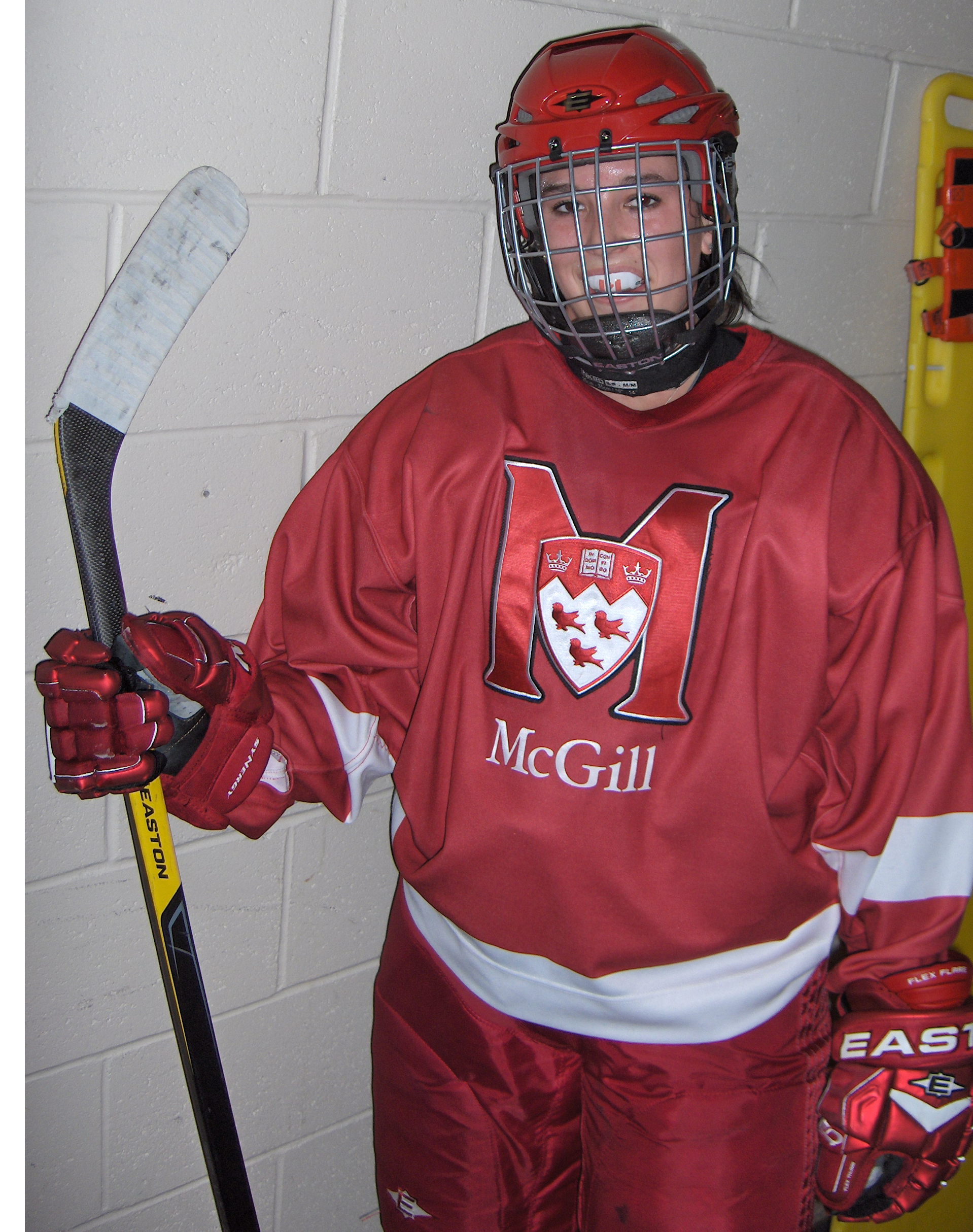 Melodie Daoust, McGill Martlets